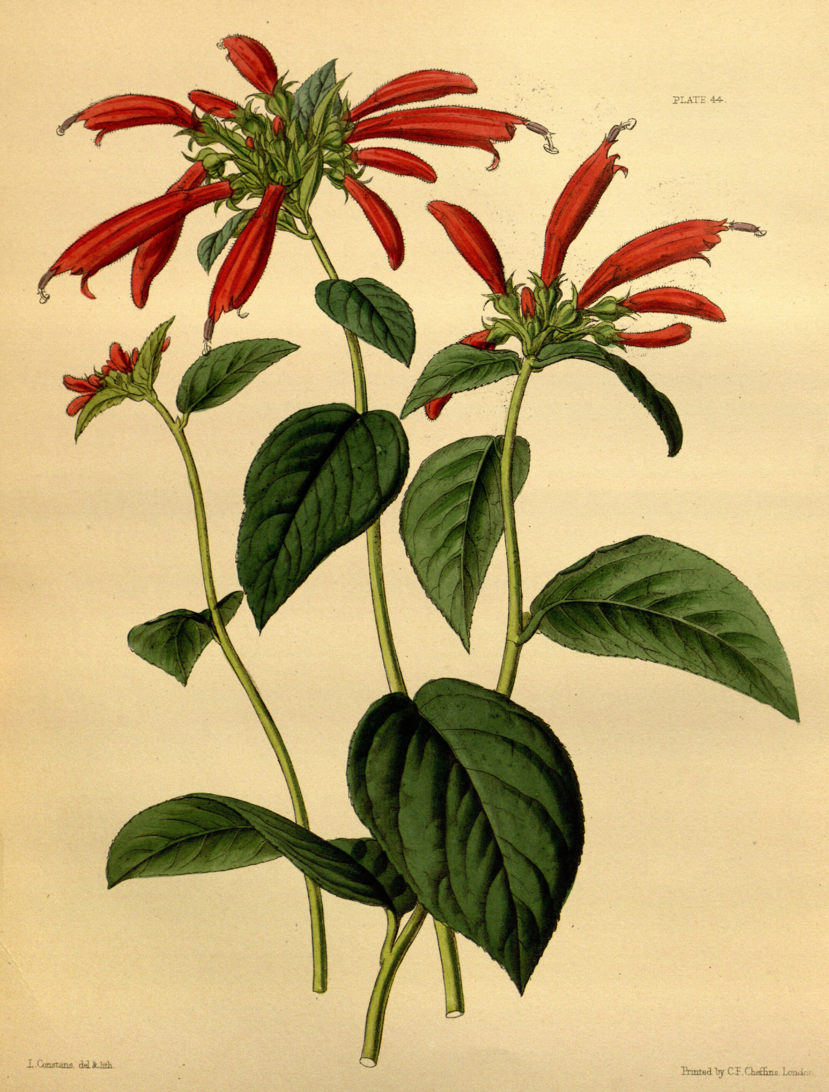 Siphocampylus microstoma Hook.